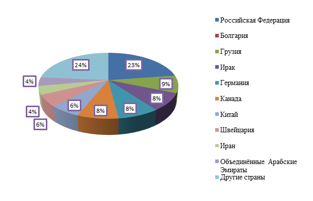 Geographic structure of export of goods from Armenia to 2016, %